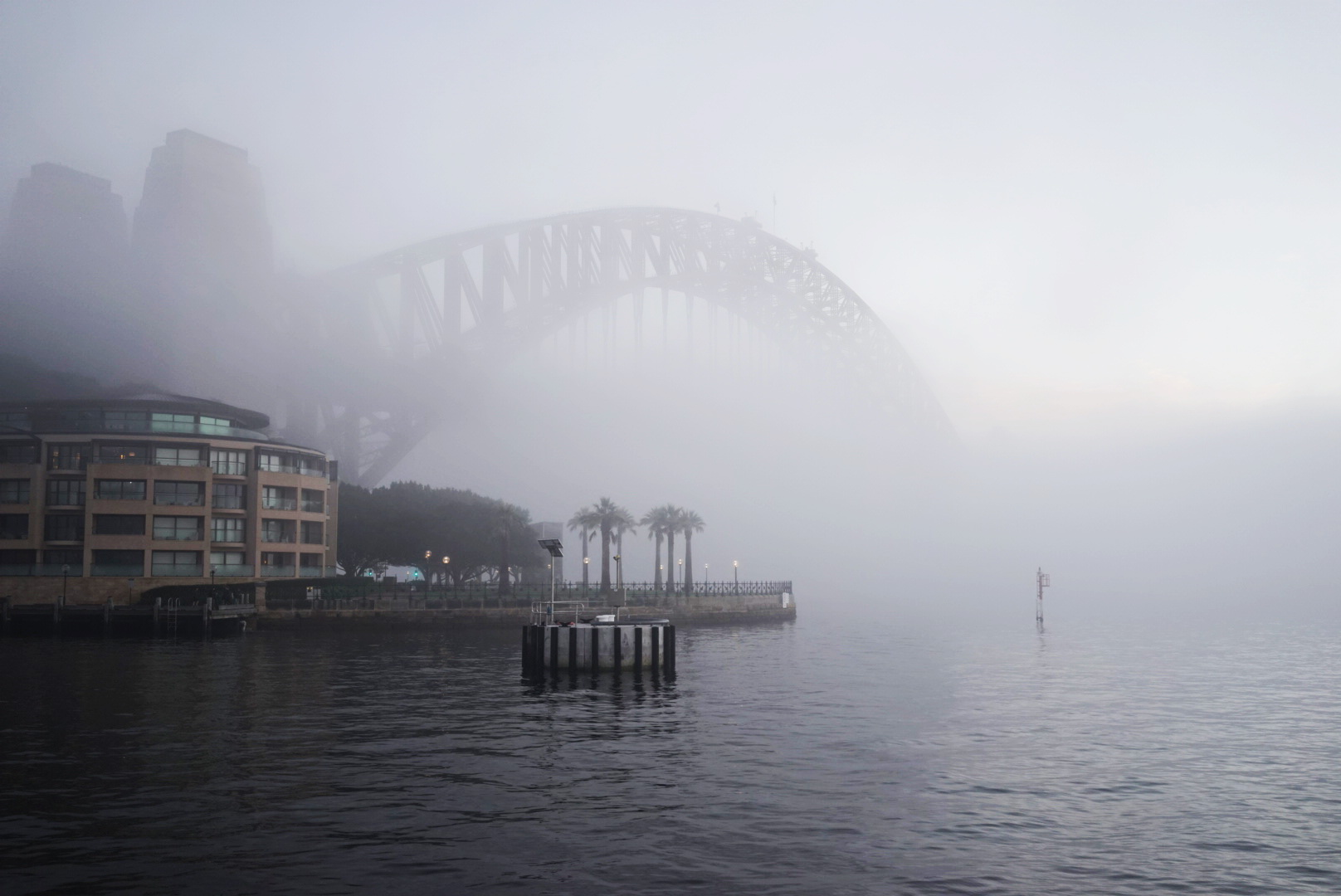 Sydney Harbour in a foggy winter morning.